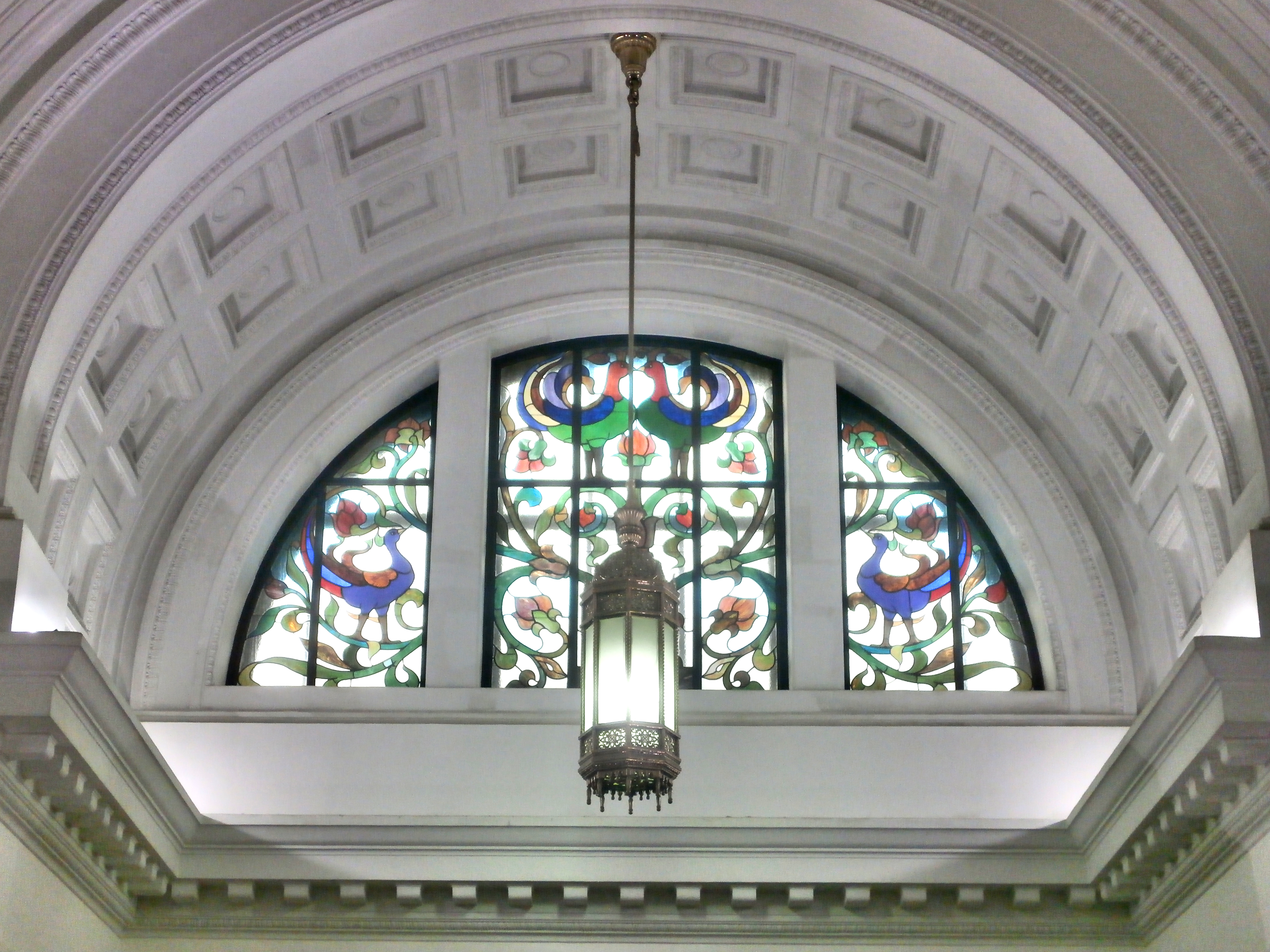 The Stained Glass of the Japan Gallery, National Museum of Nature and Science, Tokyo, Japan.